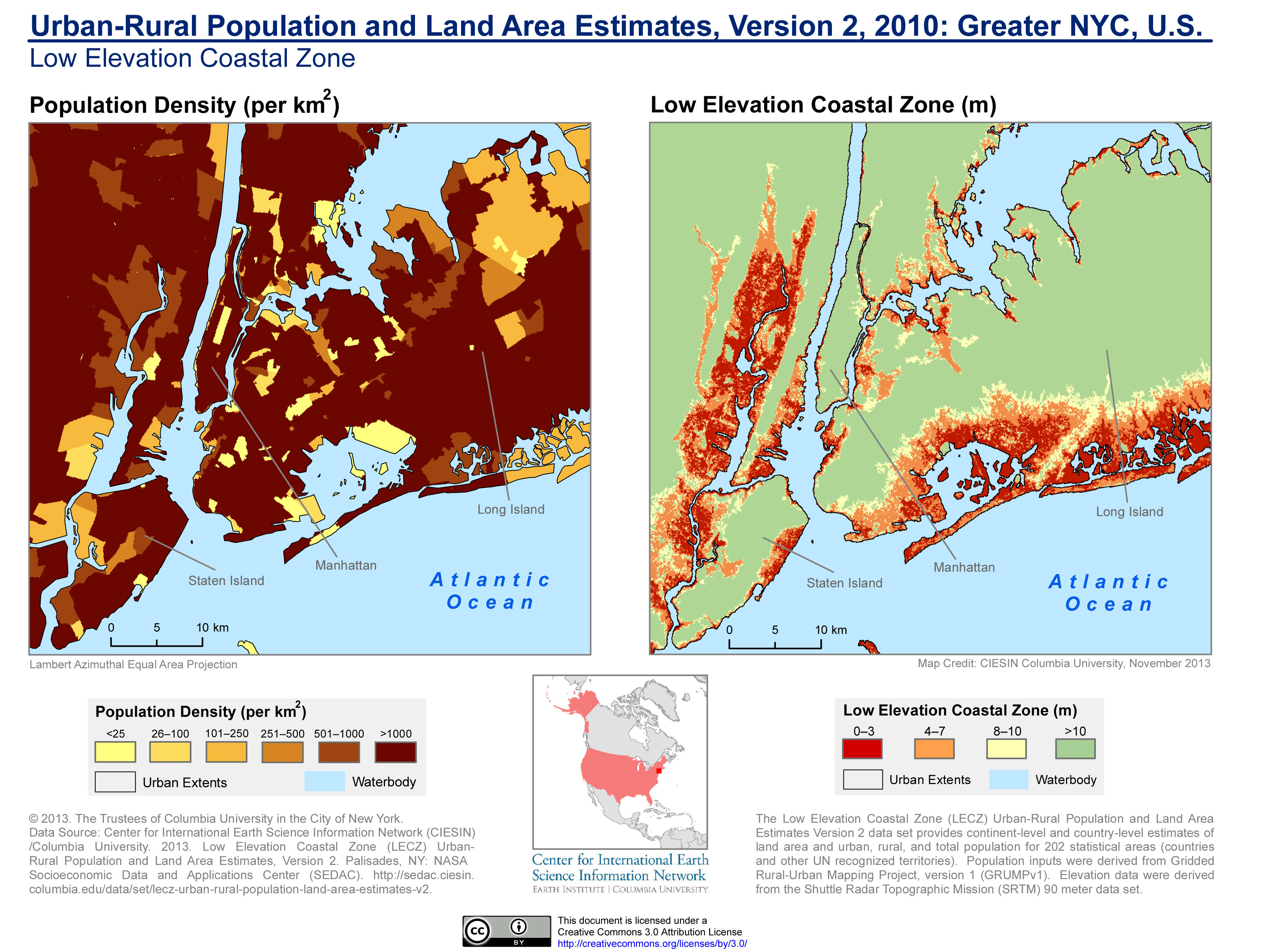 The Low Elevation Coastal Zone (LECZ) Urban-Rural Population and Land Area Estimates Version 2 dataset provides continent-level and country-level estimates of land area and urban, rural, and total population for 202 statistical areas (countries and other UN recognized territories). Population inputs were derived from Gridded Rural-Urban Mapping Project, Version 1 (GRUMPv1). Elevation data were derived from the Shuttle Radar Topographic Mission (SRTM) 90 meter dataset.